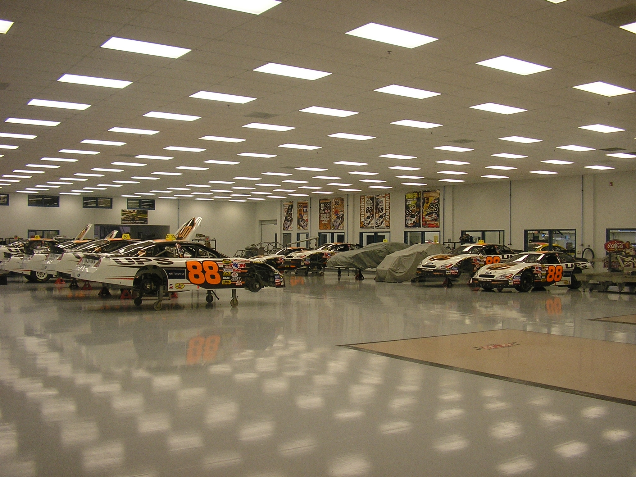 The Robert Yates Racing NASCAR Garage in Mooresville, North Carolina, as seen on July 7, 2005. Seen is the garage for #88 UPS car, driven at the time by Dale Jarrett.